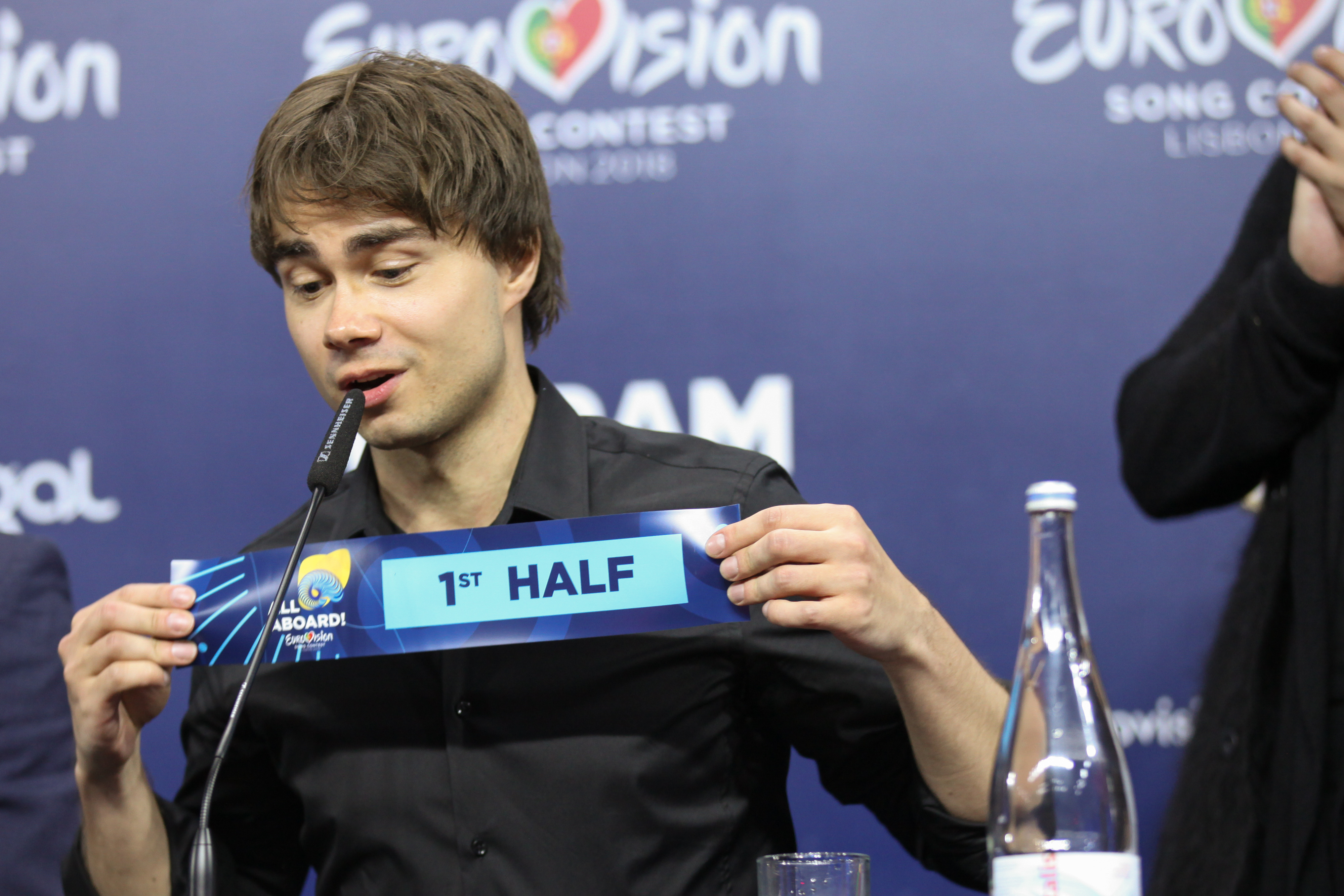 Eurovision Song Contest 2018 Grand Final Allocation Draw (semi-final 2)